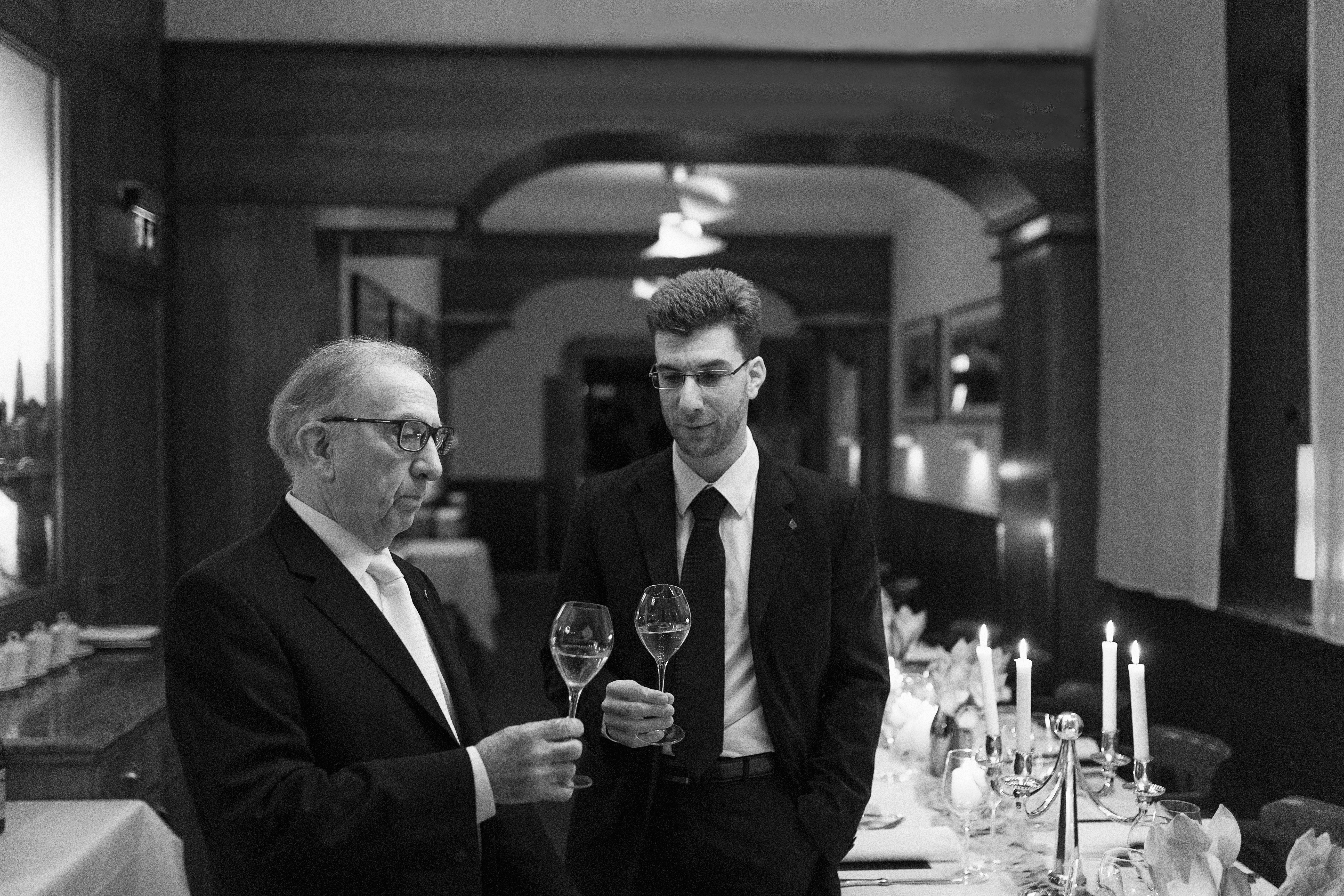 Jean-Jacques and Alexandre Cattier: Portrait